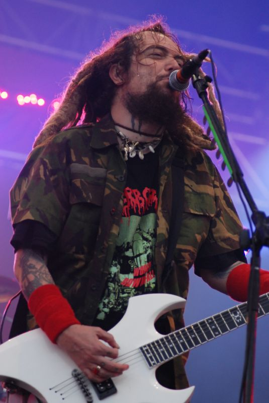 Cavalera Conspiracy at the Eurockéennes 2008